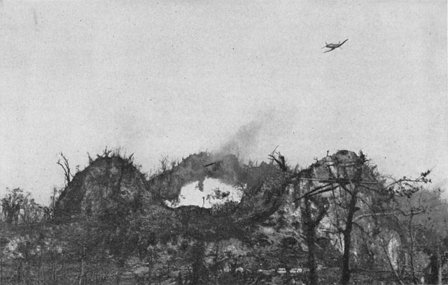 A U.S. Marine Corps Chance Vought F4U-1 Corsair aircraft attacks a Japanese bunker at the Umurbrogol mountain on Peleliu with napalm bombs.